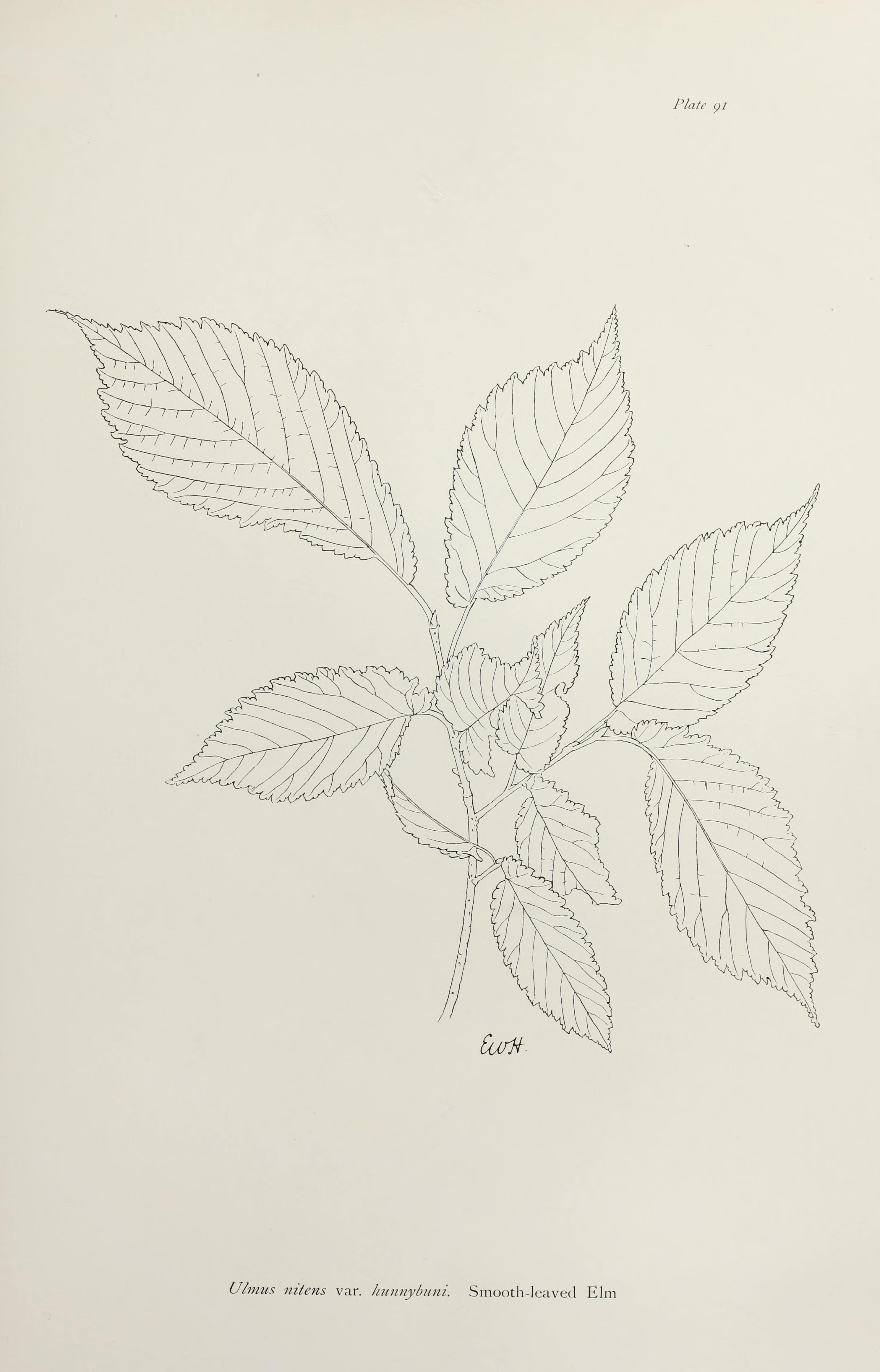 Ulmus nitens var. hunnybuni. Smooth-leaved Elm